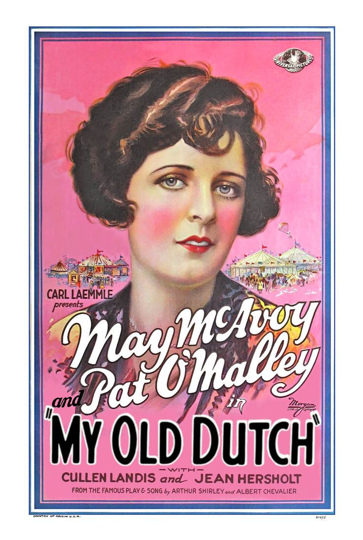 Poster for the 1926 film short My Old Dutch. There are no copyright marks on the item. At bottom left is Country of origin USA. At left is the logo of the Morgan Litho Company, Cleveland--they printed the poster. At bottom left are the numbers 31455-probably a job number for the printing of the poster.